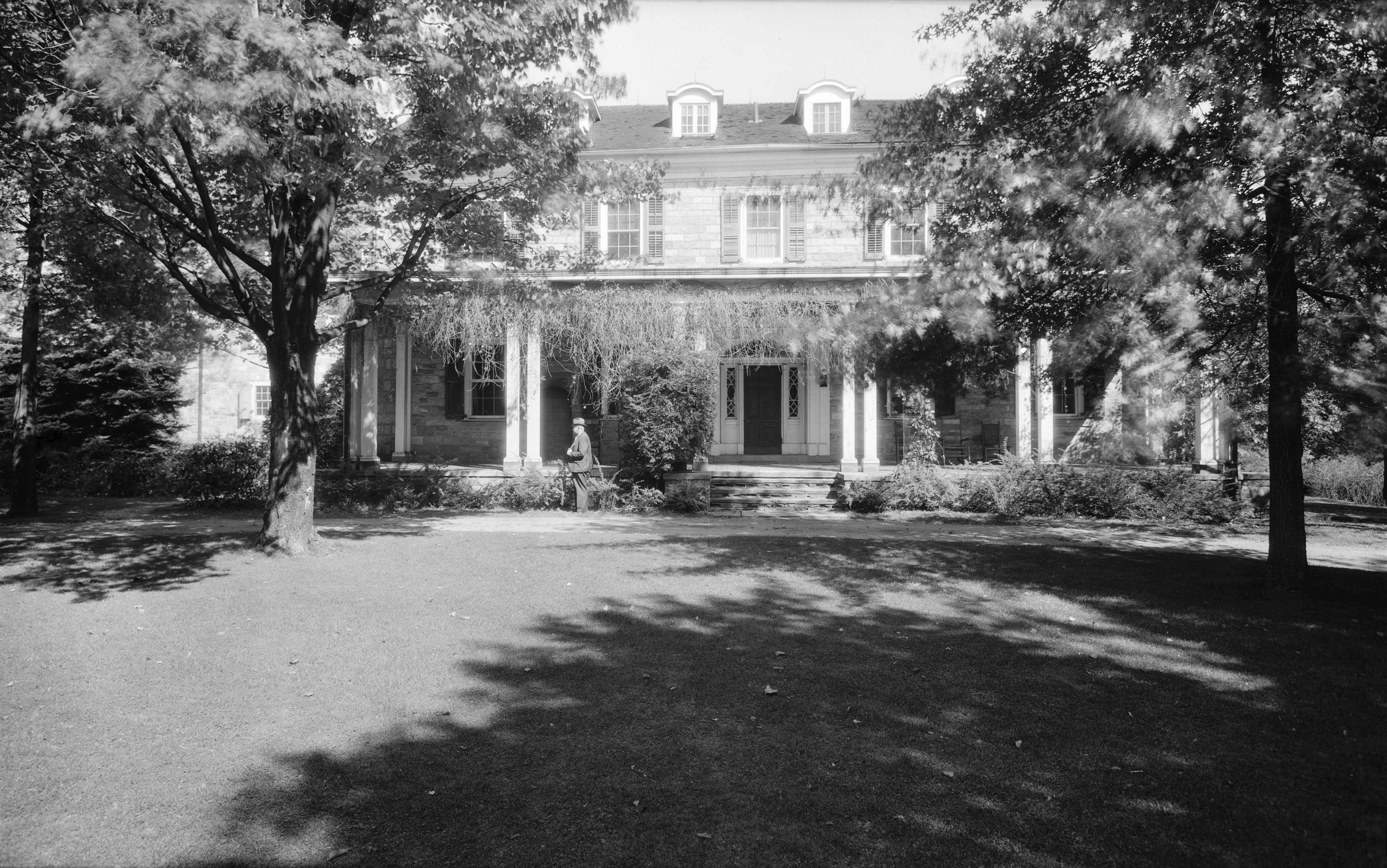 Front of the Clemuel Ricketts Mansion, located on Ganoga Lake near Lopez in Colley Township, Sullivan County, Pennsylvania, United States. Built in 1852, the Georgian mansion was added to the National Register of Historic Places on 9 June 1983.